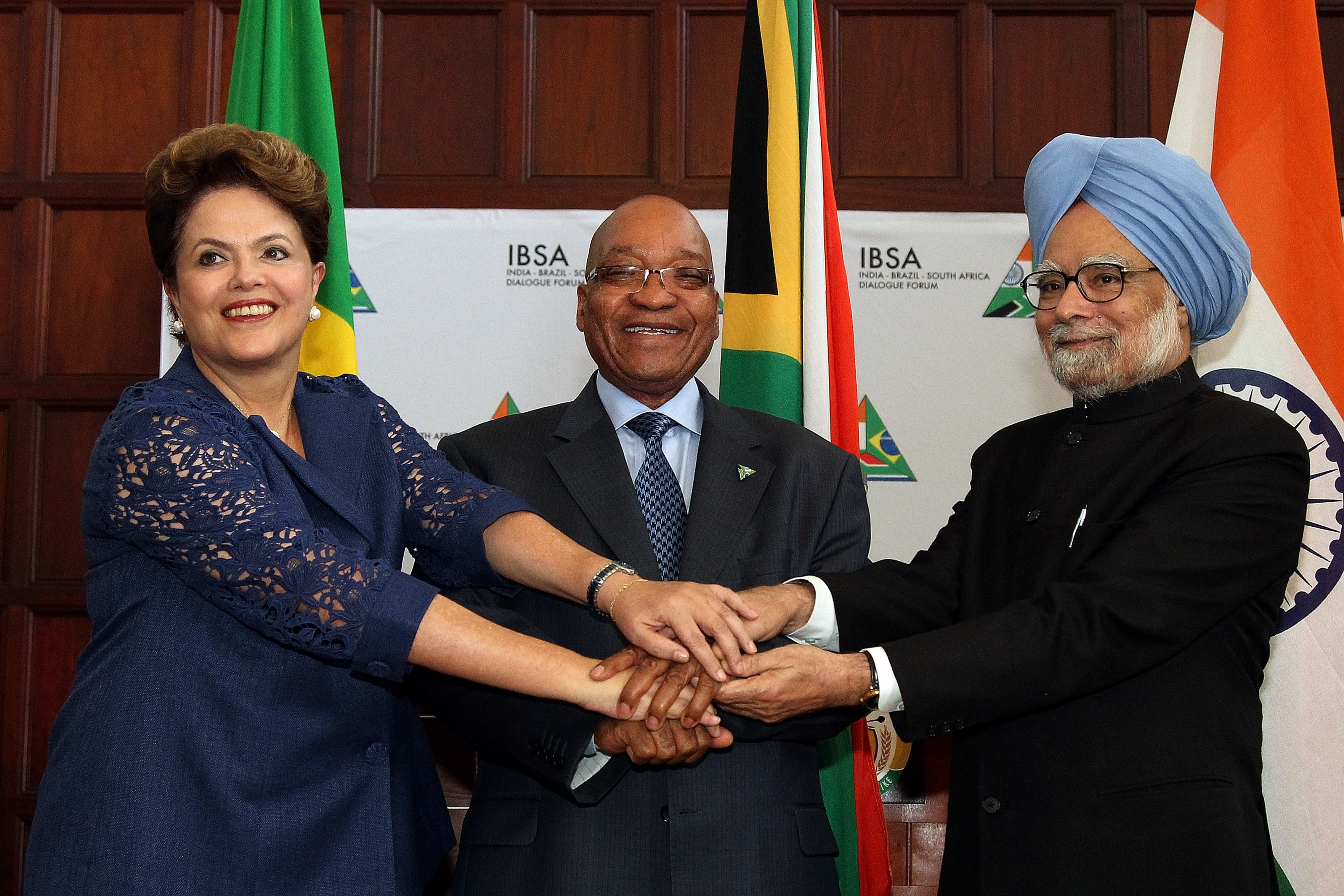 Pretória (Africa do Sul) - Presidenta Dilma Rousseff, posa para foto ao lado do Presidente da Africa do sul Jacob Zuma, e do primeiro Ministro da India Manmohan Singh Pretoria (South Africa) - President Rousseff, poses for photo next to the President of South Africa Jacob Zuma, and the Prime Minister of India Manmohan Singh